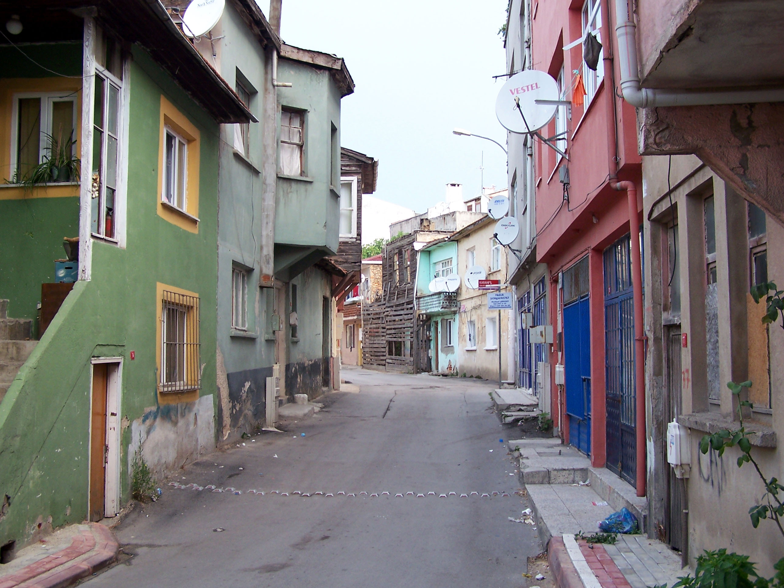 Street in the historical center of Tuzla, İstanbul, Turkey.